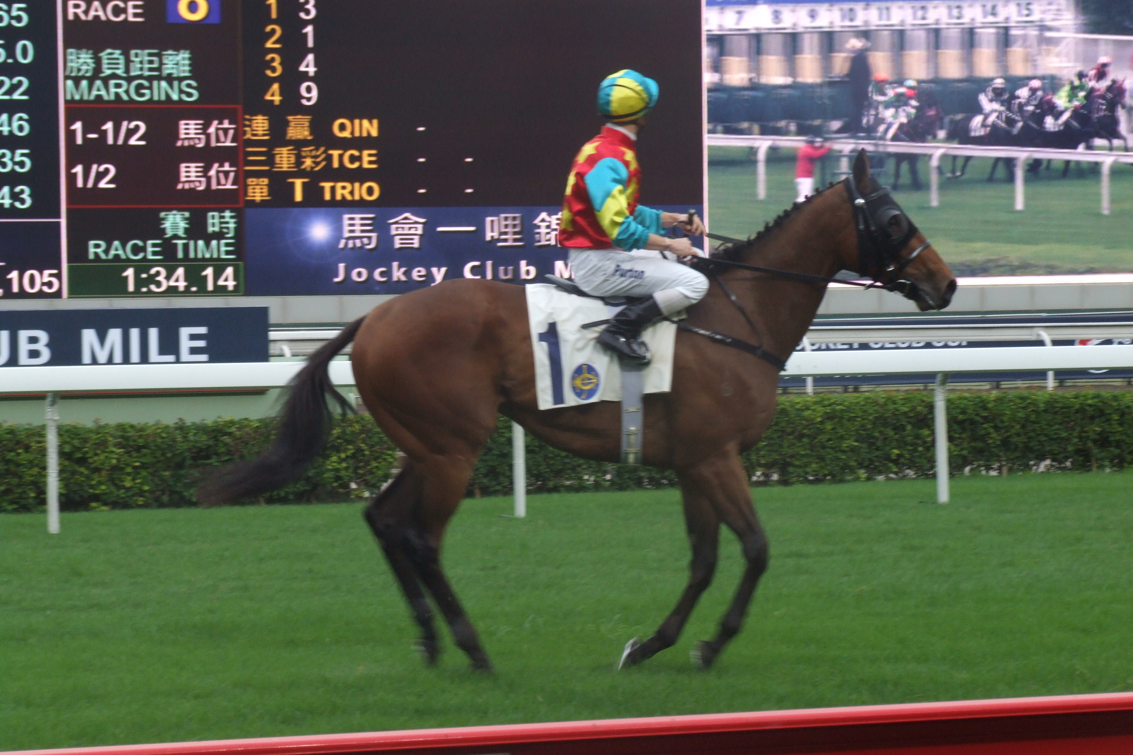 Ambitous Dragon - run again at 2012 Jockey Club Mile